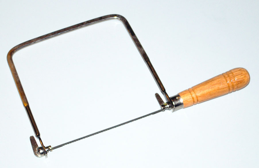 Photo of a coping saw.